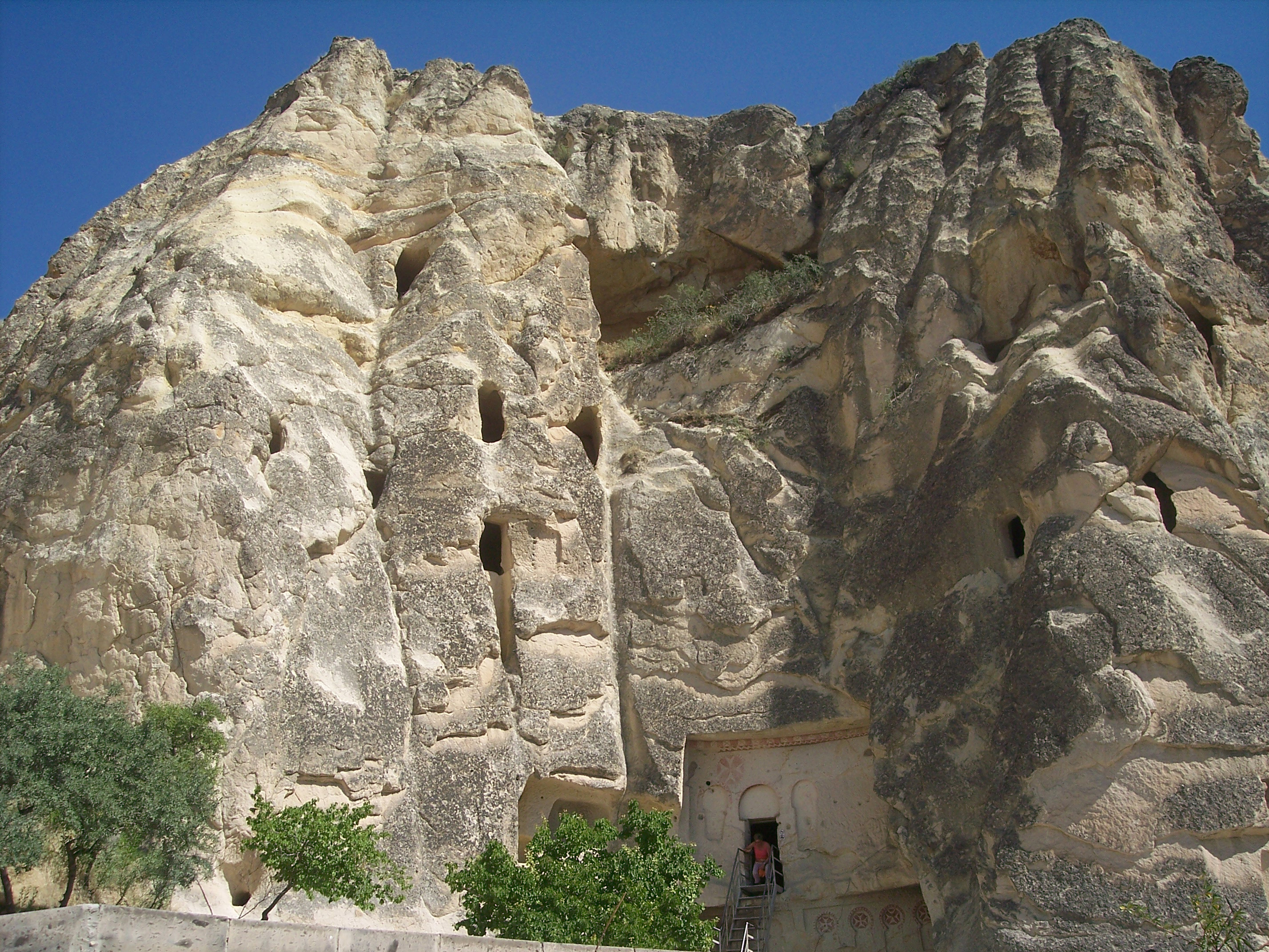 Çarıklı Kilise, "The Church with Sandals", Göreme Open Air Museum, Cappadocia, Nevşehir/Turkey. Entrace is visible, note the carvings on the sides. The name of the church comes from the two footprints found in the fresco at the entrance.